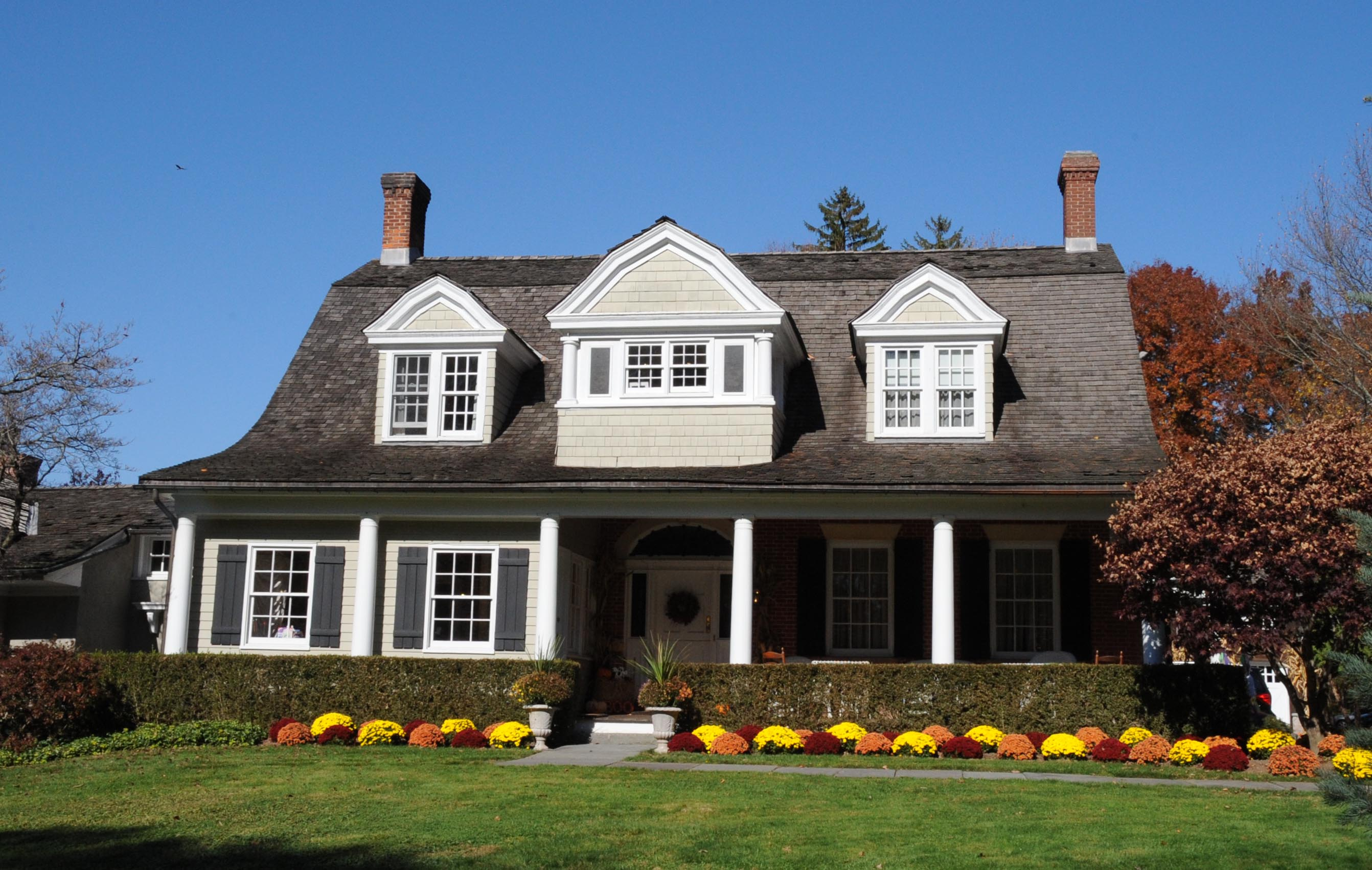 THE ORIGINAL SECTION OF THE HOUSE WAS BUILT IN 1741 BY ABRAHAM D. HARING. A LARGE DUTCH COLONIAL STYLE ADDITION WAS BUILT ONTO THE HOUSE IN 1828. SAMUEL B. CORNING PURCHASED THE HOUSE IN 1856. JENKINS SLOAT PURCHASED THE HOUSE IN 1870 AND OPERATED A SAWMILL ON THE PROPERTY. WILLIAM L. TAIT, WHO WAS THE FIRST MAYOR OF ROCKLEIGH OWNED THE HOUSE FROM 1913 TO 1930. TAIT ADDED A WING TO THE HOUSE, A VERANDA AND EXTENDED THE CENTRAL DORMER.